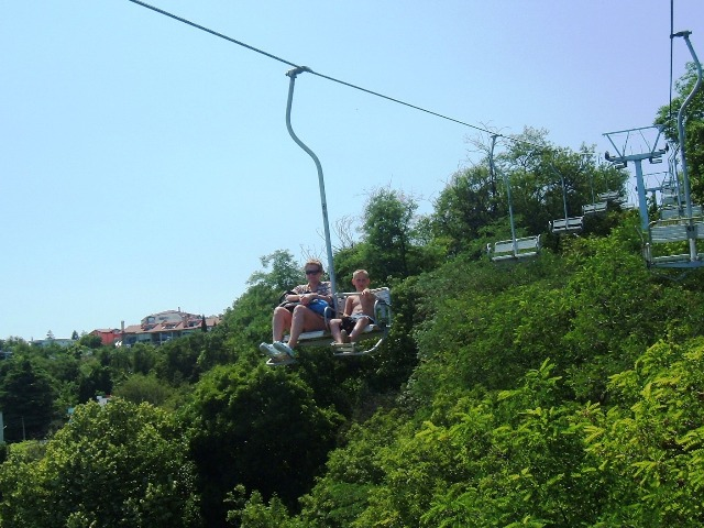 A woman and a boy enjoying an aerial ride located in quarter "Chaika" Varna.